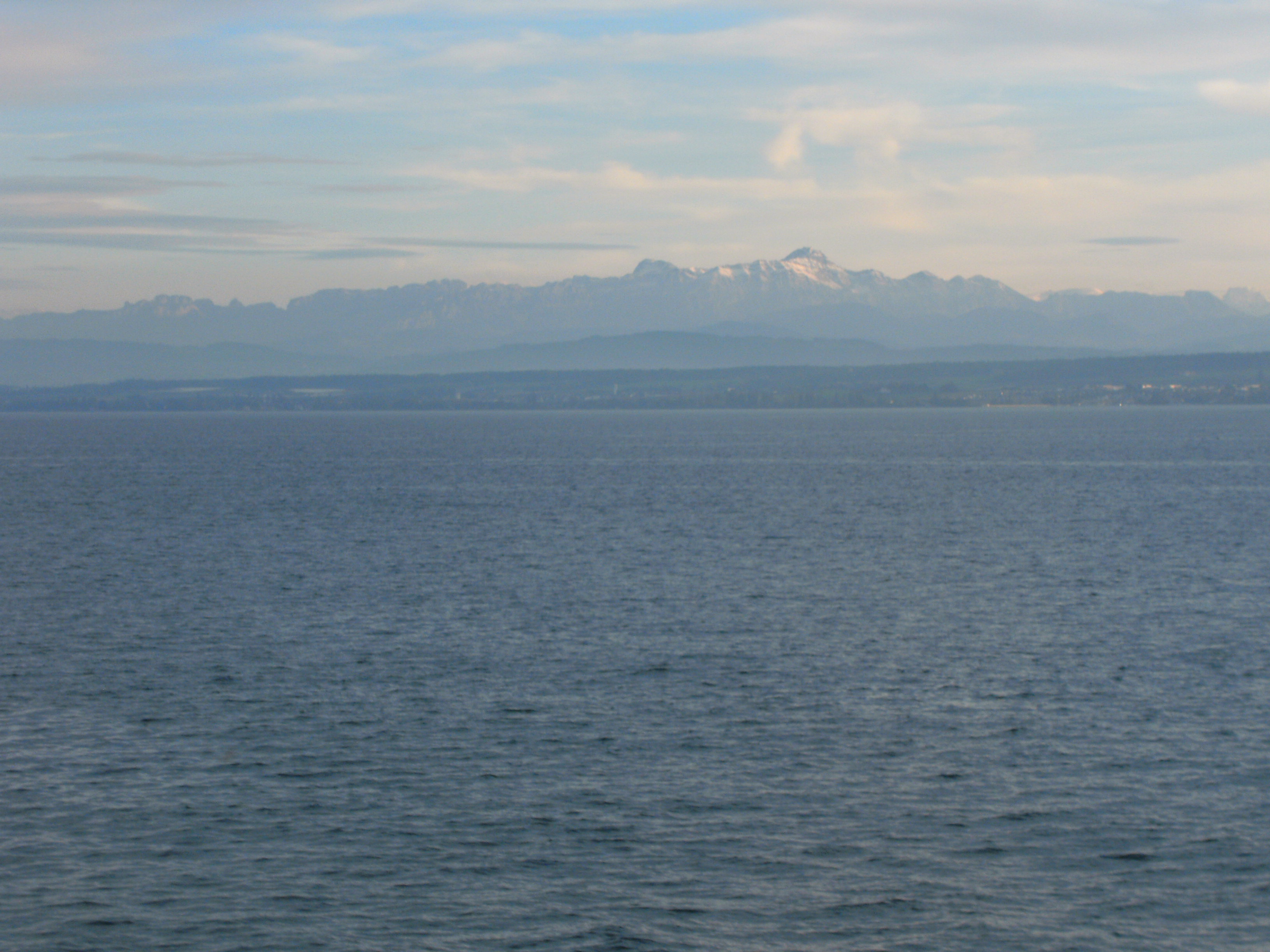 Friedrichshafen, Germany, Seepromenade (lakeside promenade): View from lakeside promenade on Lake Constance and the Alps.